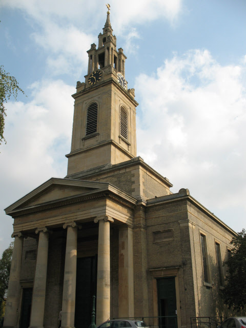 West front of St James' parish church, Thurland Road, Bermondsey, London SE16.